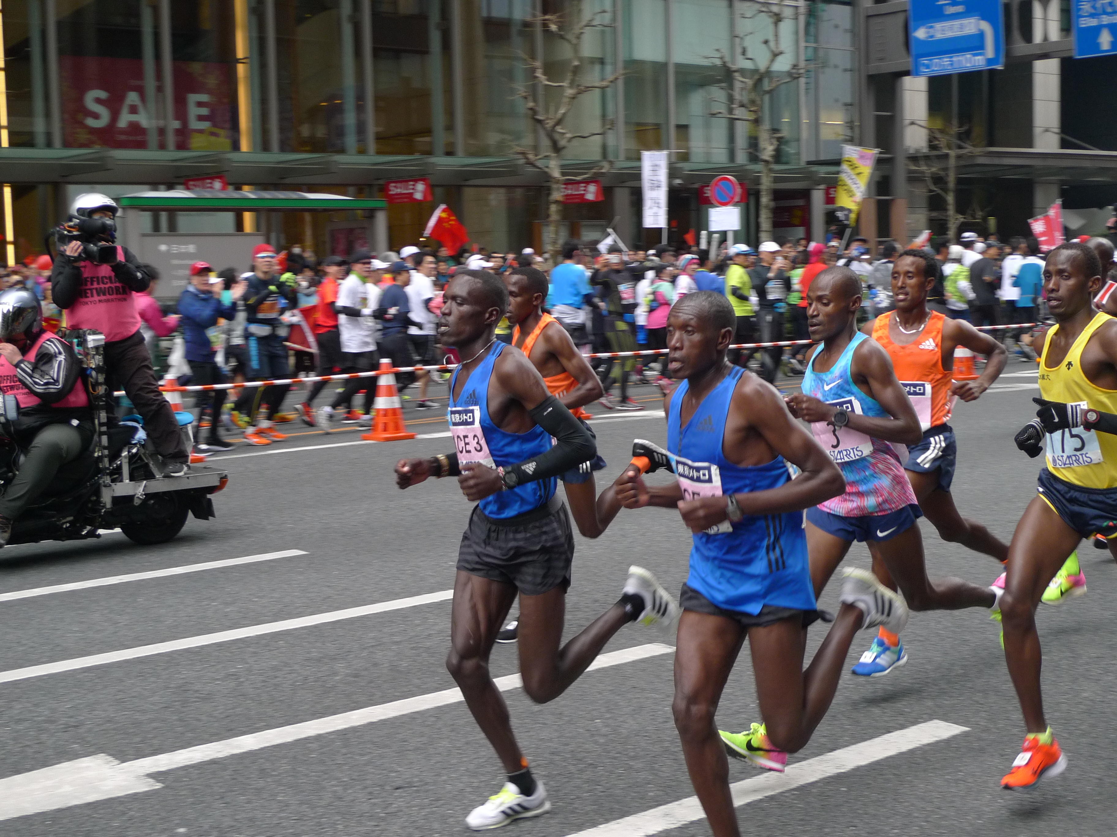 Tokyo Marathon 2018 Runner